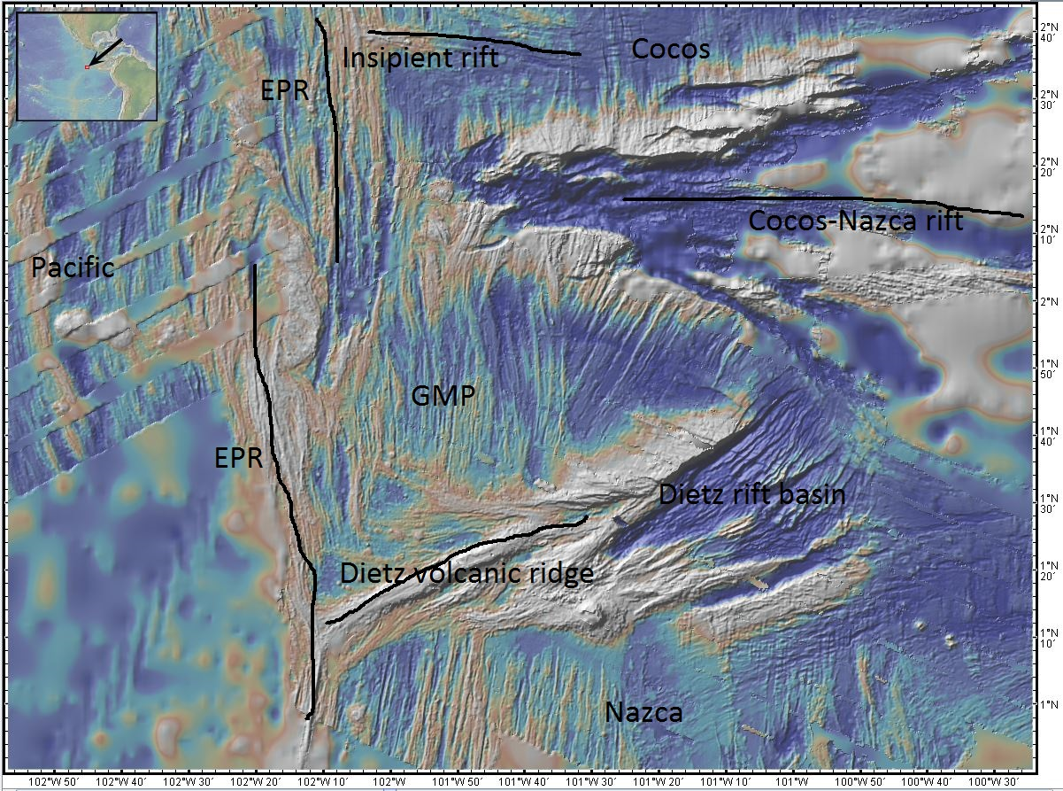 The map is generated through Geomapapp with annotations regarding to the Galapagos Microplate